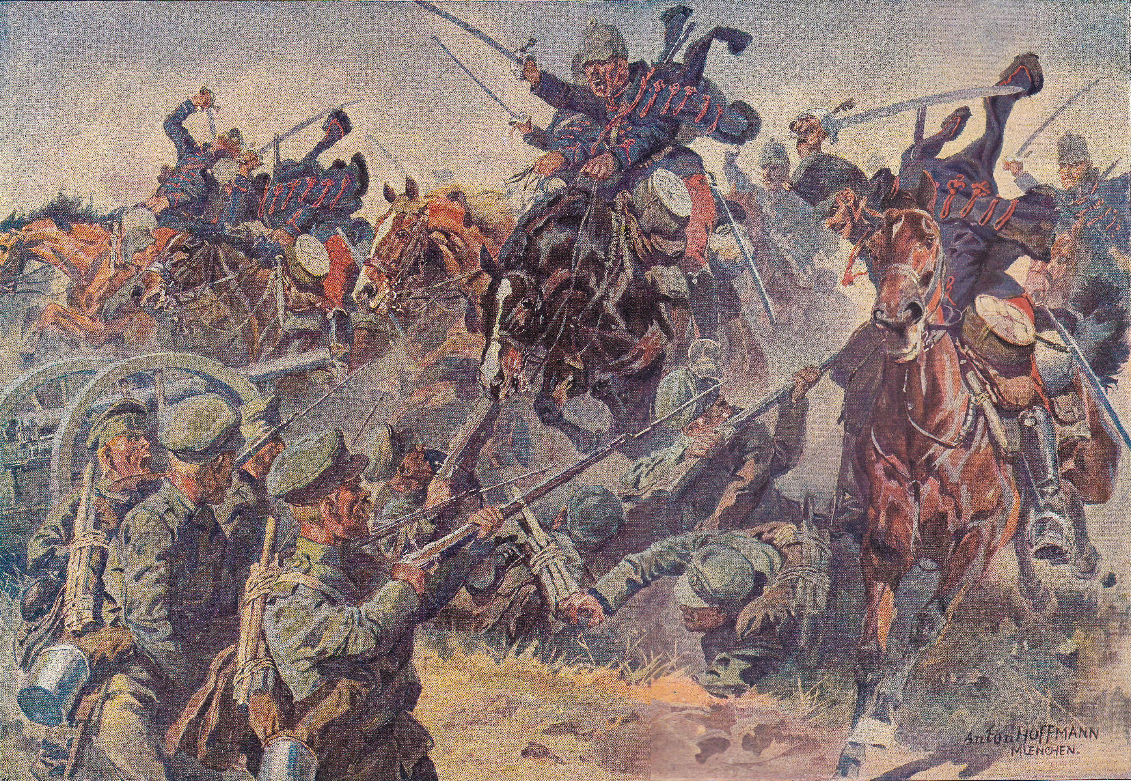 Der Krieg 1914-19 in Wort und Bild, published 1919